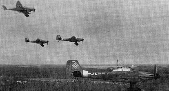 German Junkers Ju 87D-5 Stuka dive bombers of I/SG3 (1st Group, Schlachtgeschwader 3, also known as "Gefechtsverband Kuhlmey") returning from mission in the Karelian Isthmus to Immola airfield in late June 1944.